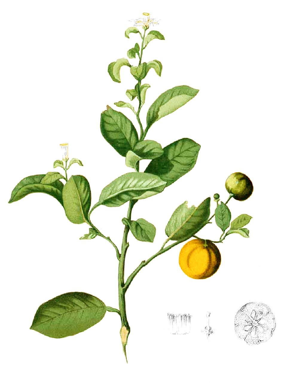 Plate from book